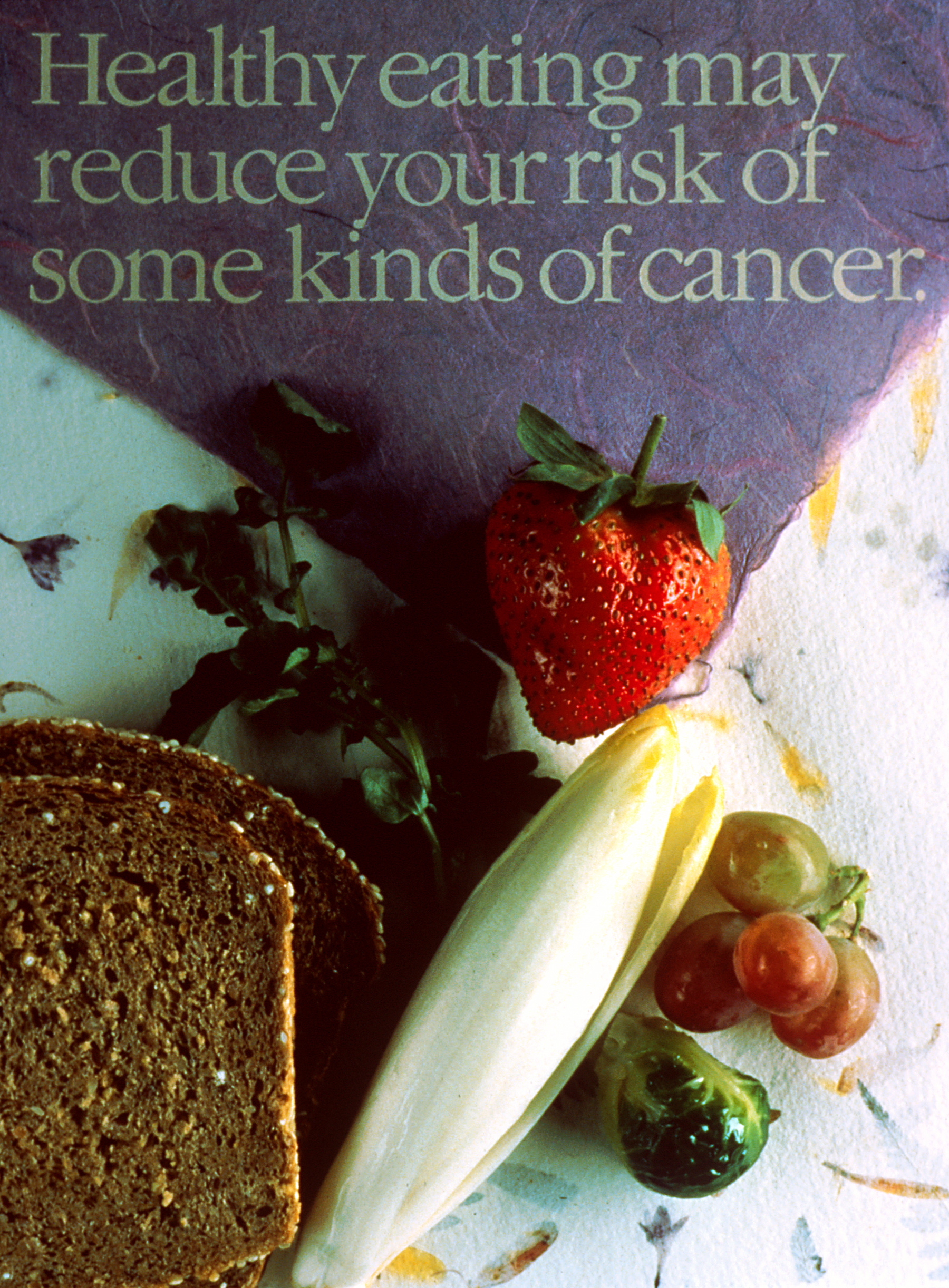 Title Healthy Foods Description From an overhead angle, bread, chinese cabbage, strawberry, grapes, brussels sprouts and a leaf garnish are shown on a white patterned table. On a purple napkin above the food, white lettering reads: "Healthy eating may reduce your risk of some kinds of cancer". Shot on 4x5 format. This was used in the 1989 calendar "Eat for Good Health" December 1989. Topics/Categories Food and Drink Type Color, Photo Source National Cancer Institute